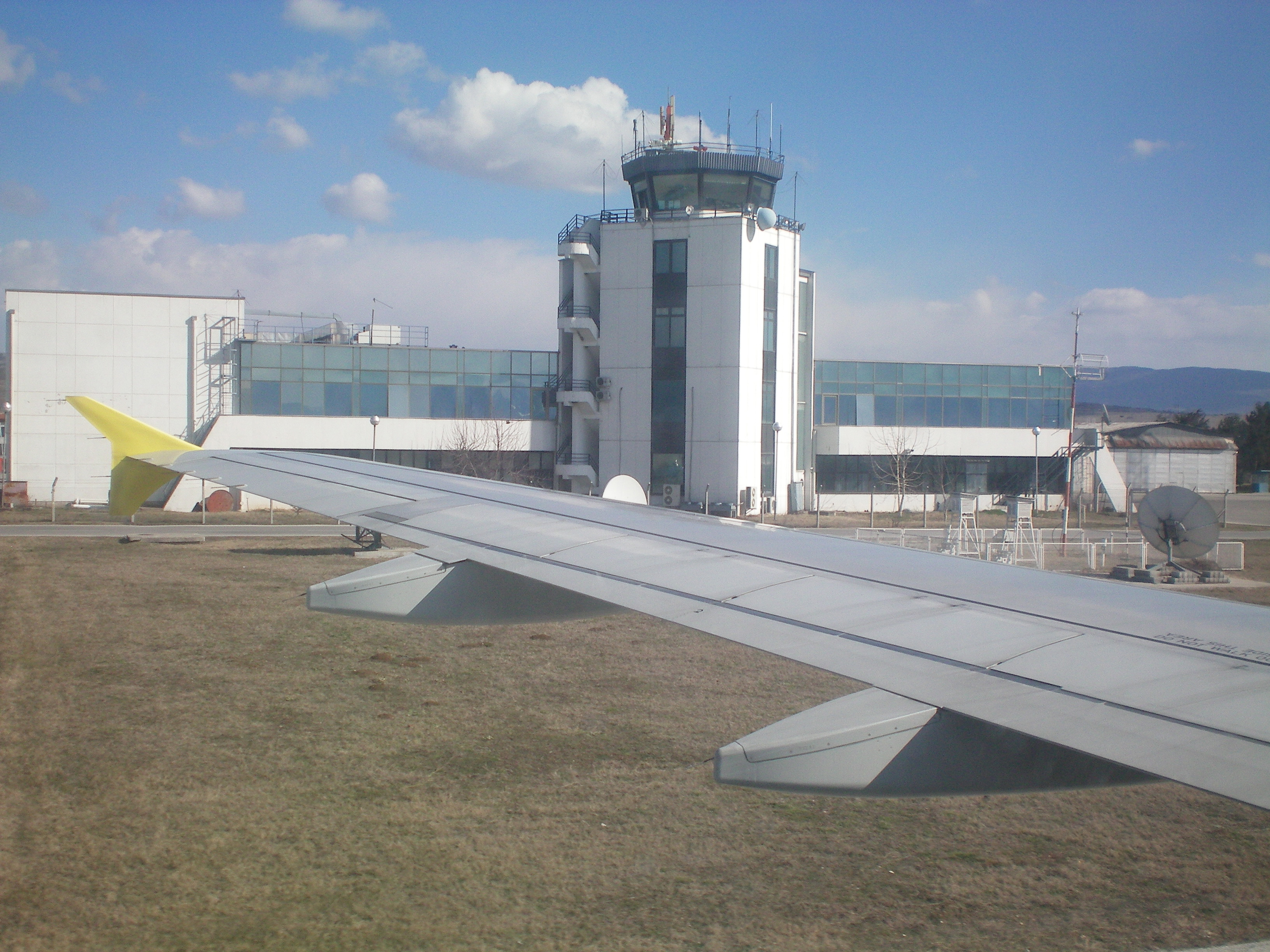 Alexander The Great Airport Control Tower - Skopje, Macedonia